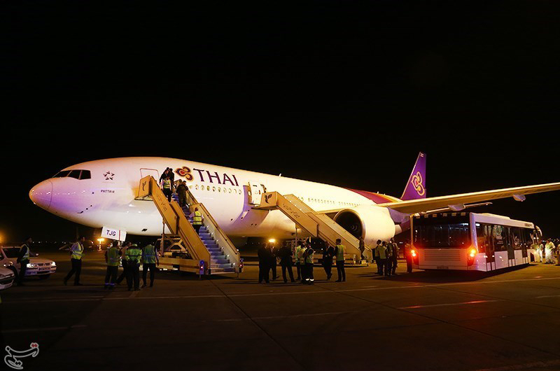 Inaugural Thai Airways International flight to Tehran's Imam Khomenei Int'l Airport